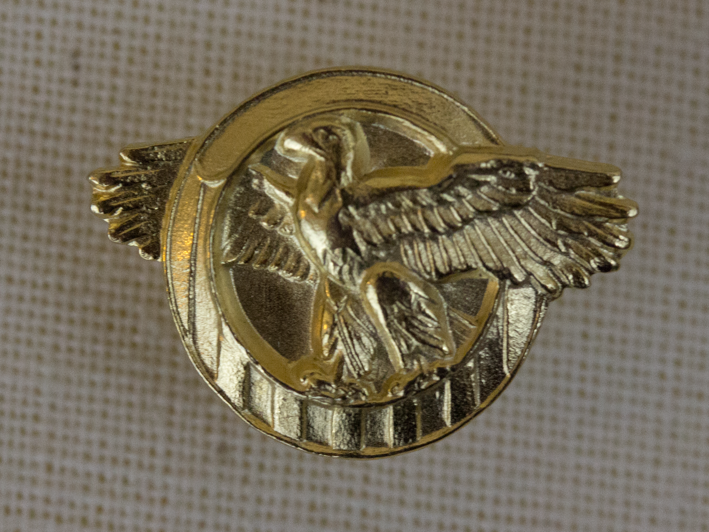 "Ruptured Duck" Honorable Service Lapel, issued to my grandfather for naval service during World War II (ordered in 1994)